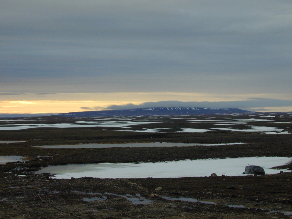 Looking north to Ovayok (Mount Pelly) taken 20 June 1999.